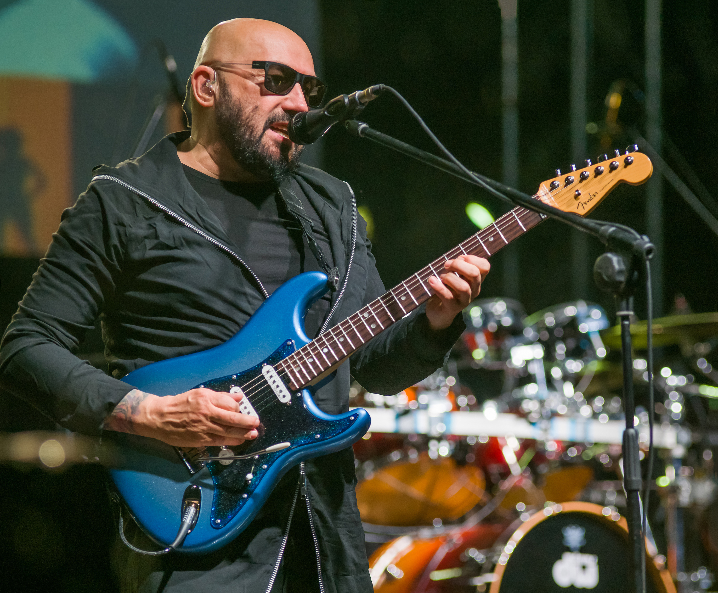 Grzegorz Skawiński in Kombii band, in Kłodzko